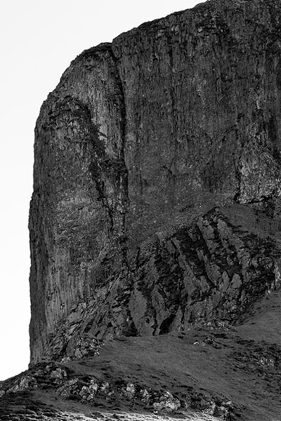 The "Nose", An Sgurr, Isle of Eigg. This was the "last great problem" for Scottish climbers. Finally climbed (at E8!) in 2002. The picture is taken from the good path that runs round the back to the summit.